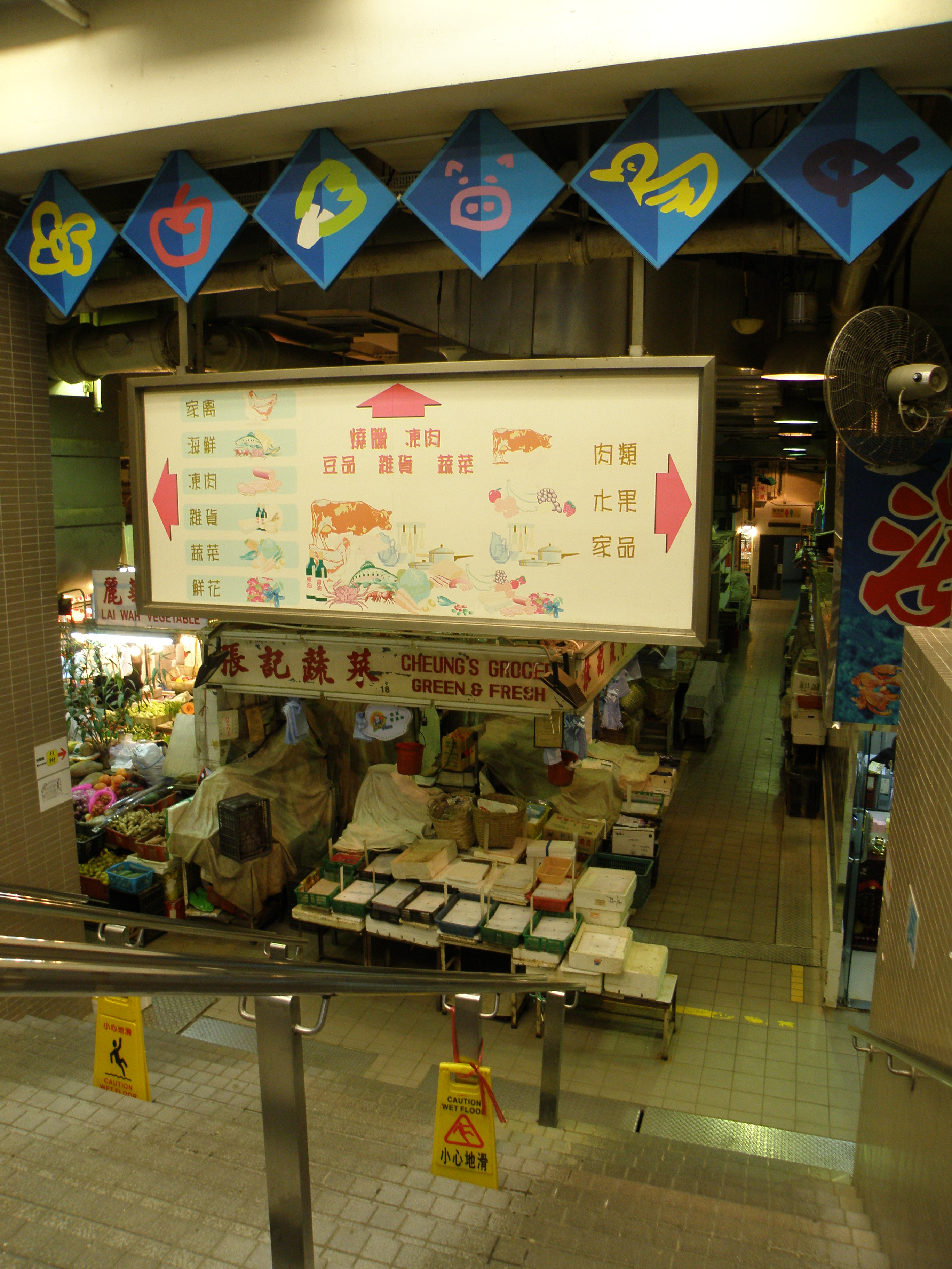 Marina Square (East Market) in Ap Lei Chau, Hong Kong.